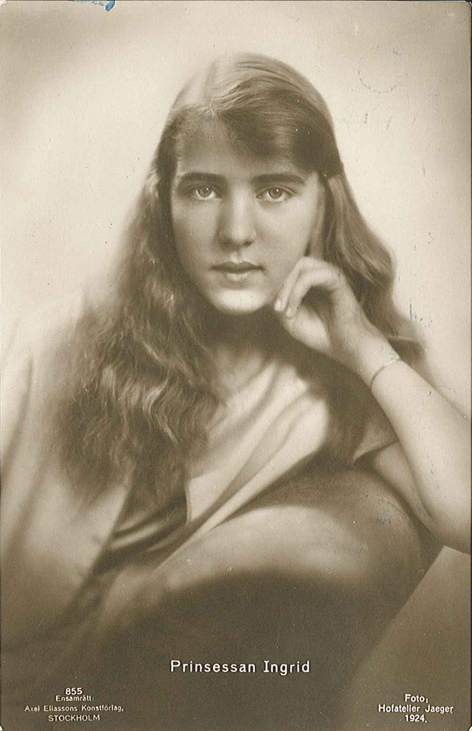 Ingrid of Sweden (1910–2000), Swedish princess (and later queen of Denmark) at the age of 14